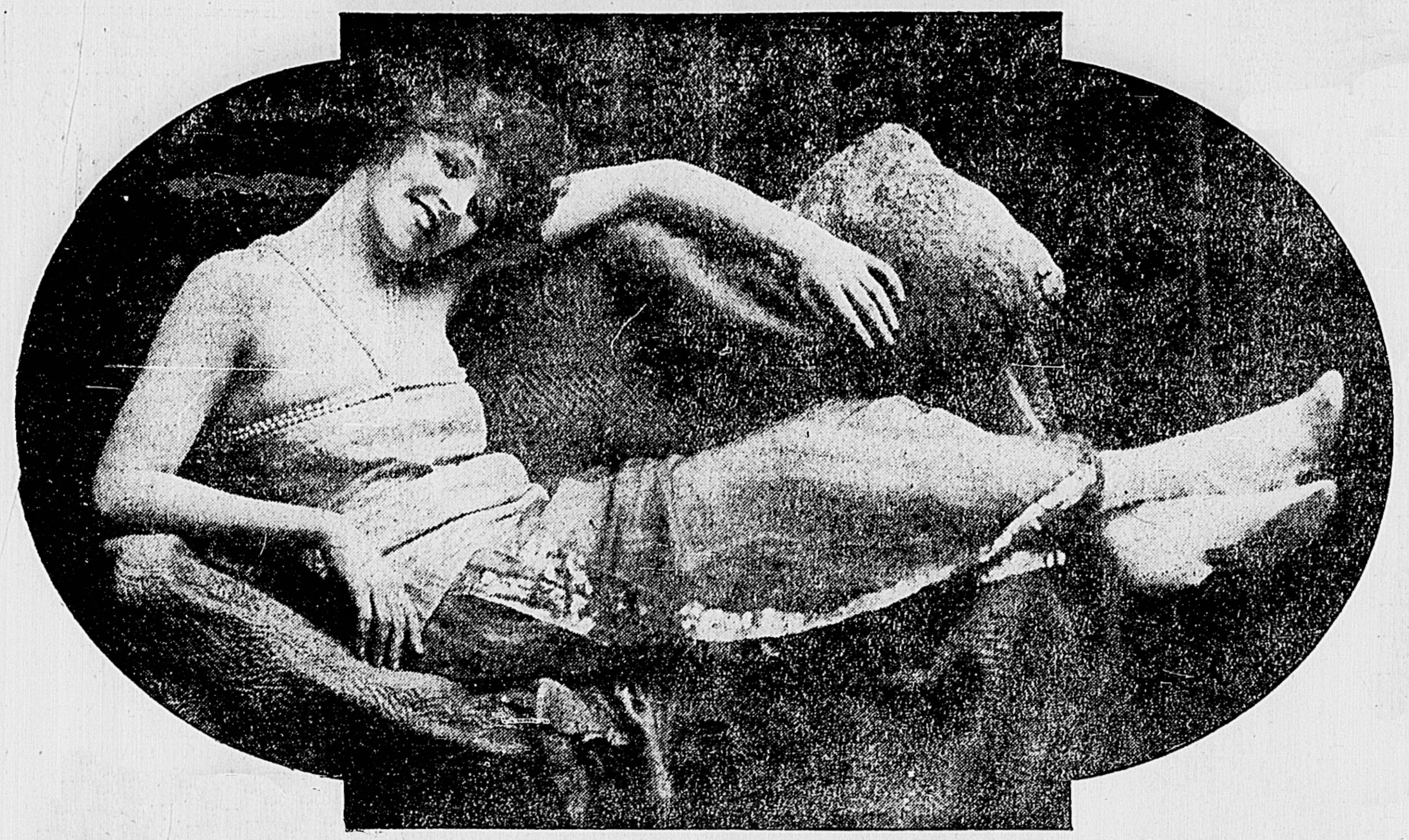 Kay Laurell depicted in a newspaper (slight digital clean up)